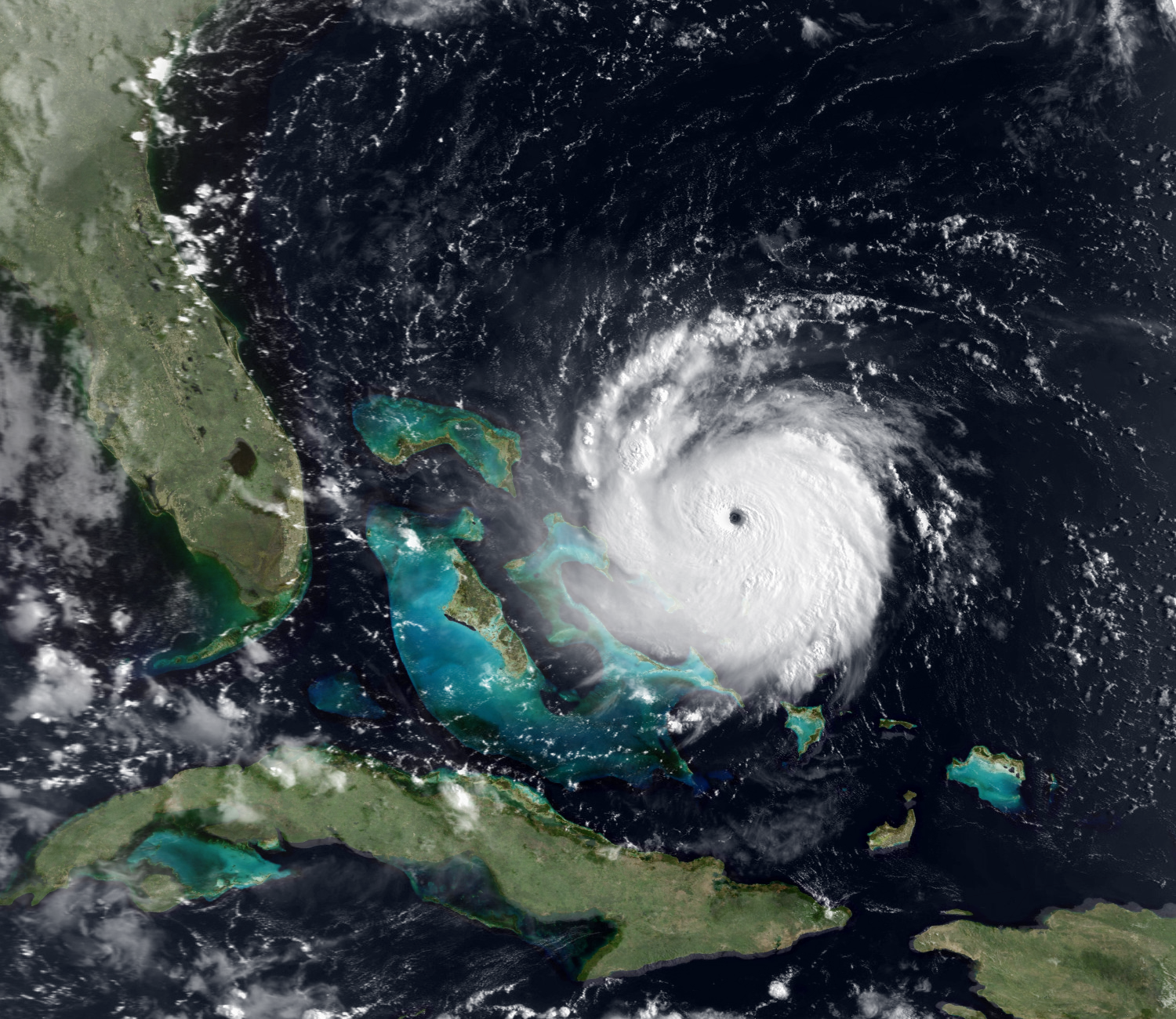 A true-colored version of